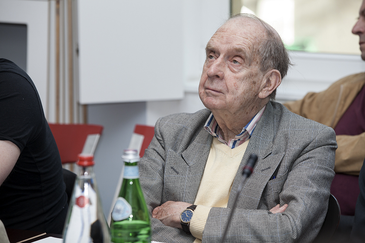 Larry Siedentop,Political Philosopher, at the Luxembourg Institute for European and International Studies conference Arno J. Mayer – Critical Junctures in Modern History, 10-11 May 2013, Casino Luxembourg.